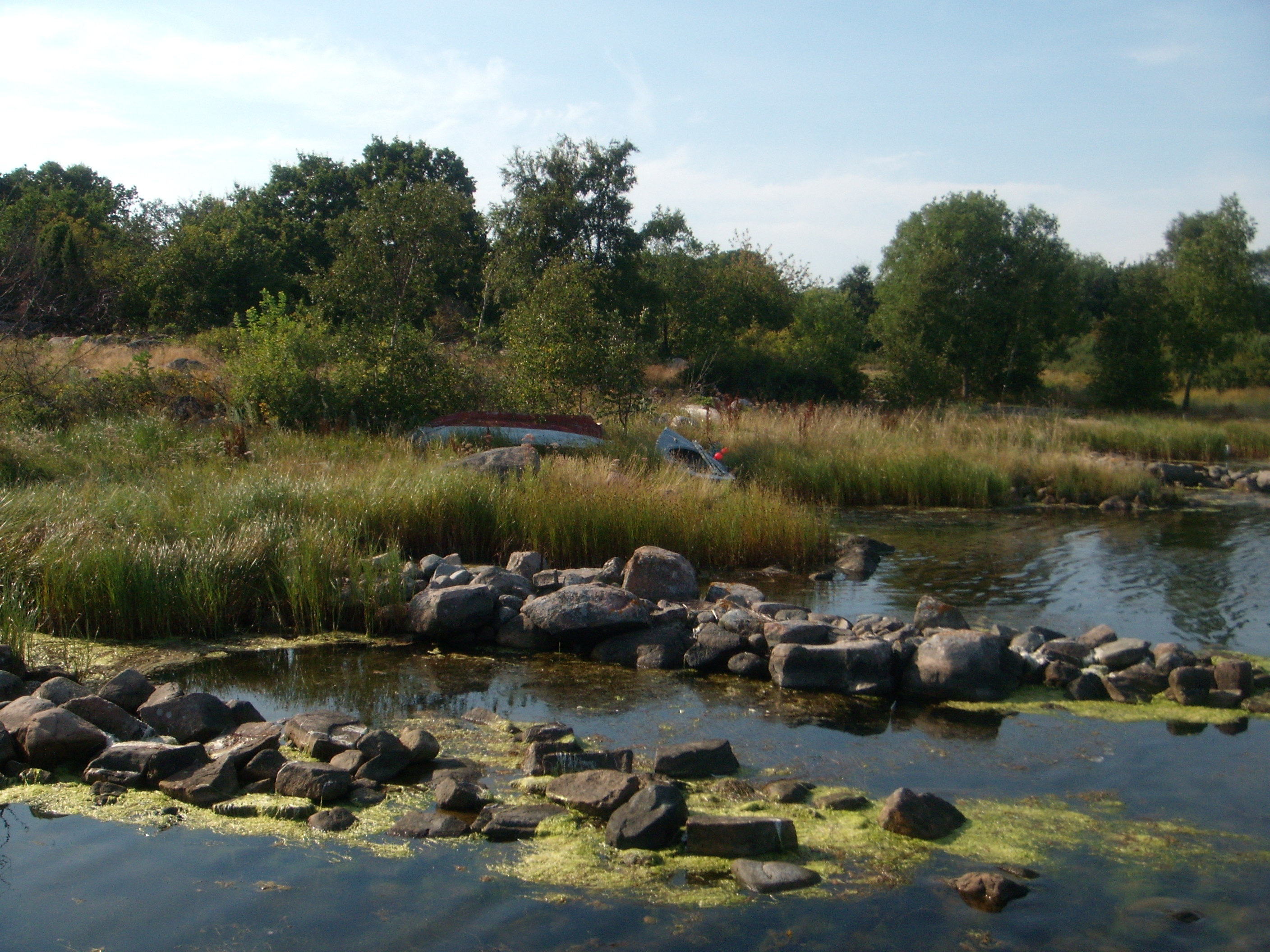 A traditional jetty for small boats in Sweden.